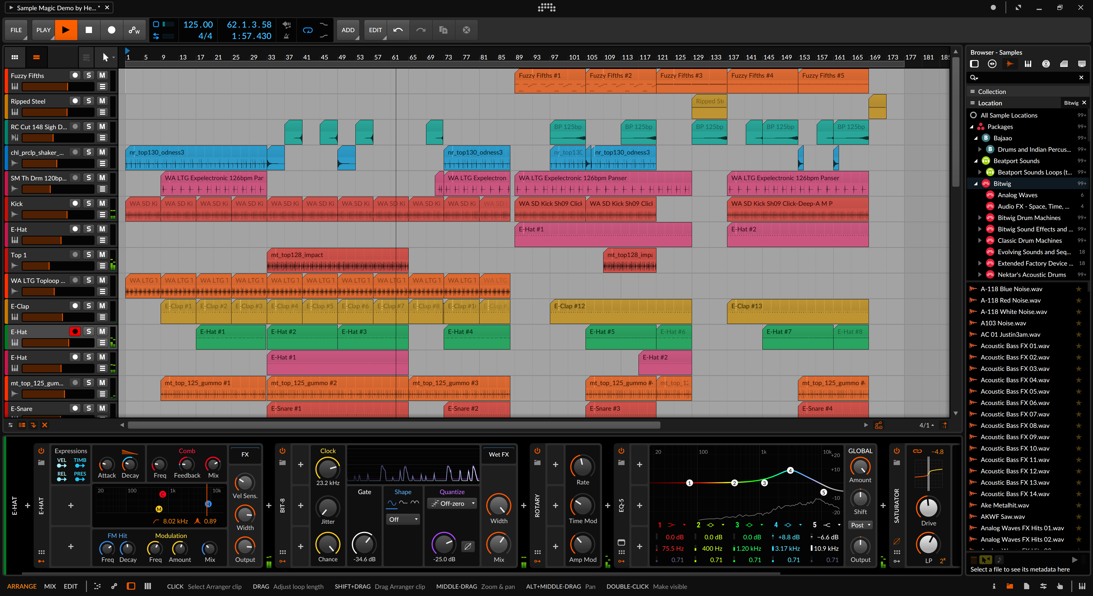 Top: Playback information Bottom: new EQ+ and saturation devices Right side: Sample selection